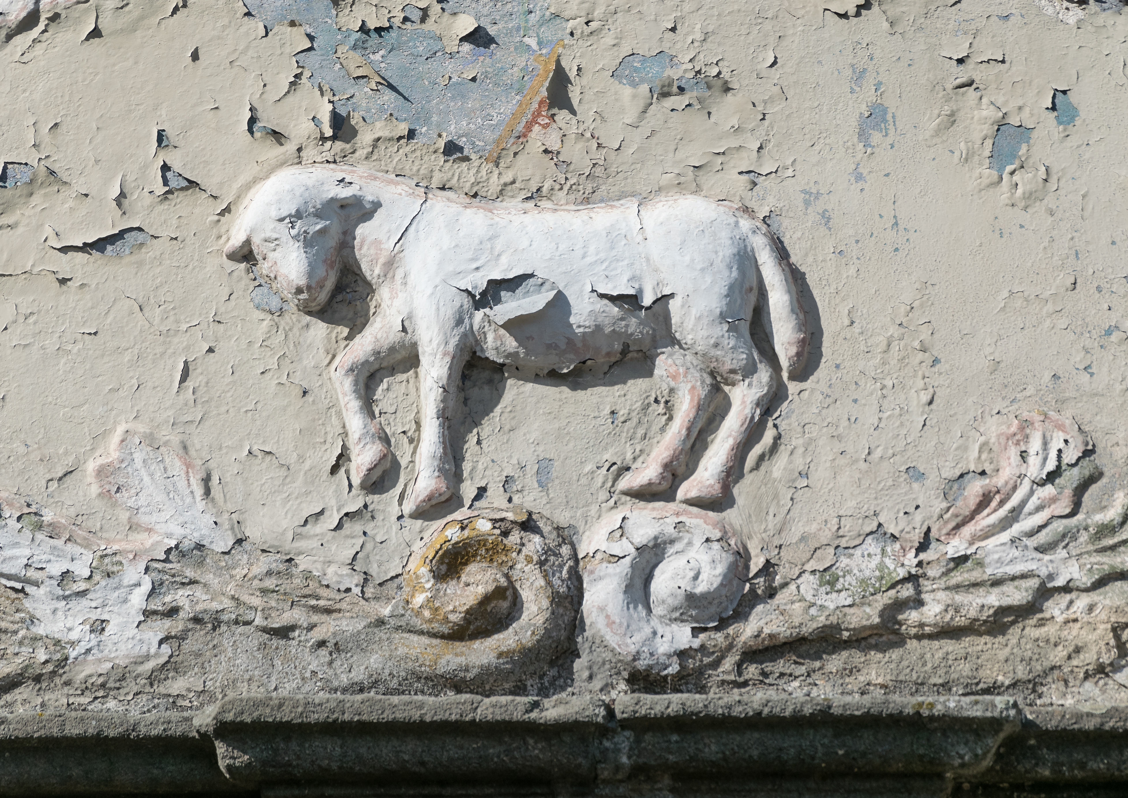 4 Warszawy Square in Duszniki-Zdrój Wikidata has entry Q30047063 with data related to this item.